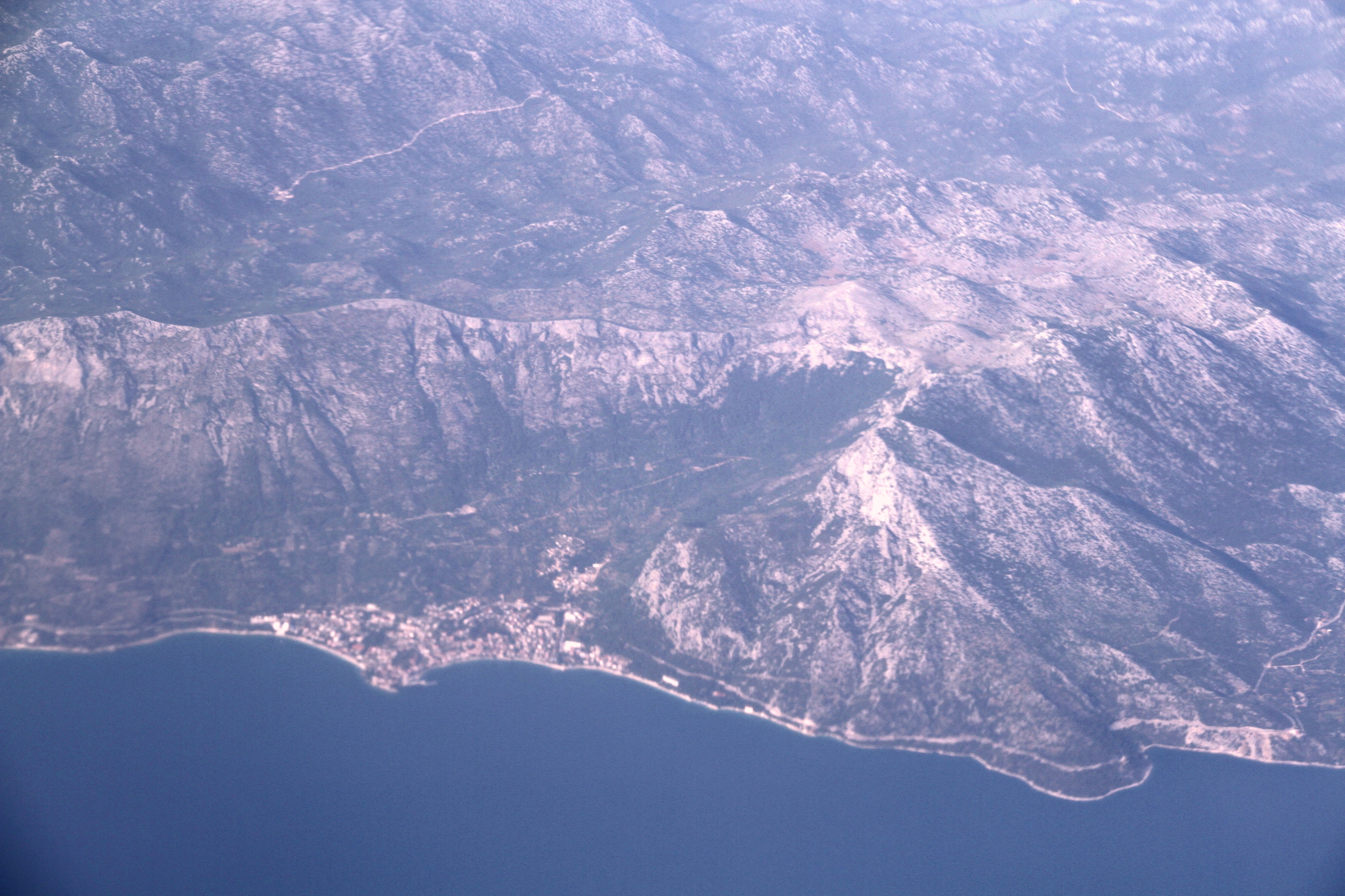 Aerial view over the western, Dalmatia parts of Croatia. This id the coastal city of Gradac, with the Biokovo mountains